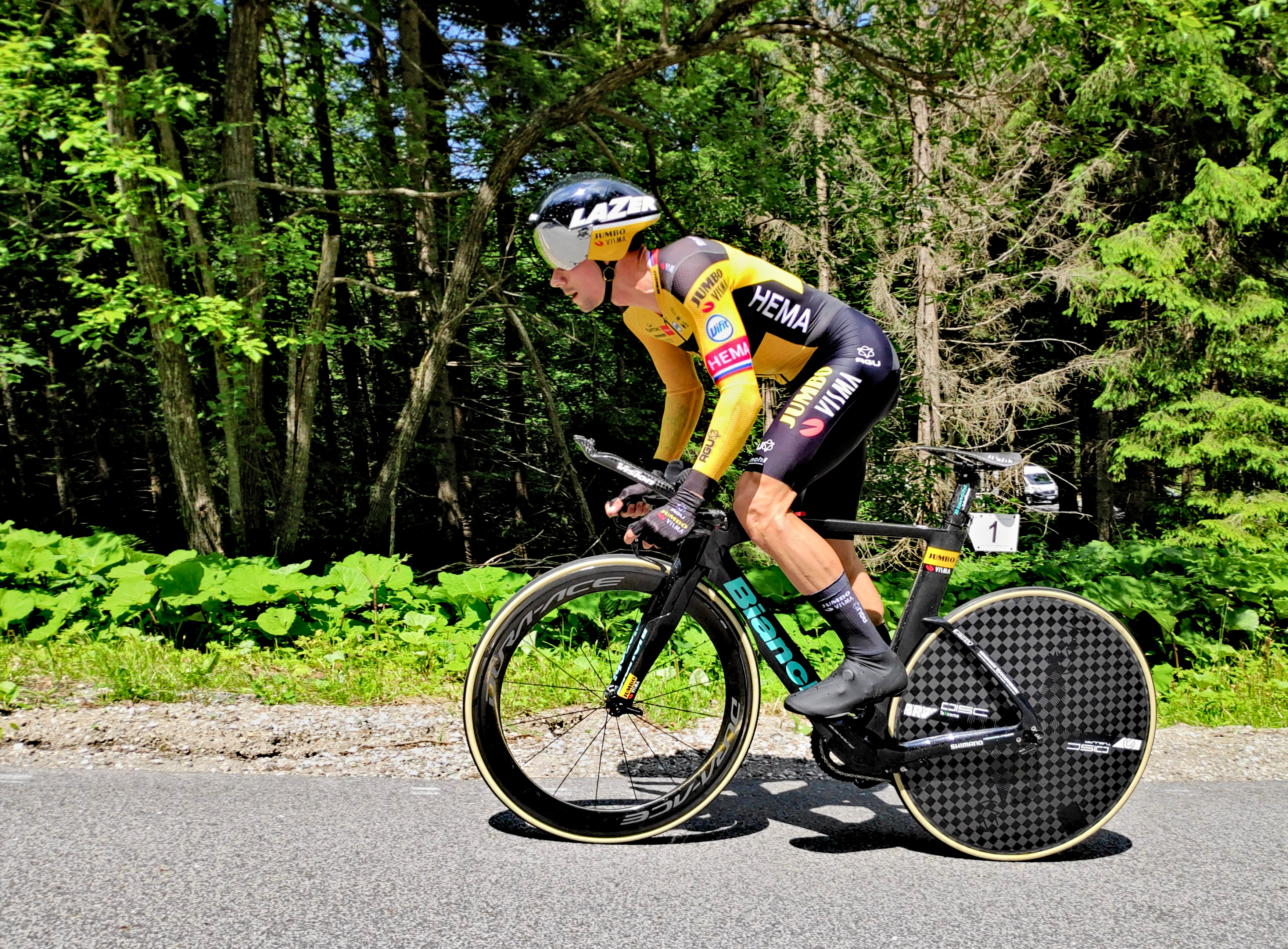 Primož Roglič (Team Jumbo Visma) at the 2020 Slovenian Time Trial championship ascending to Pokljuka, finished as 2nd, 8,5 s behind Tadej Pogačar. Pokljuka, Slovenia